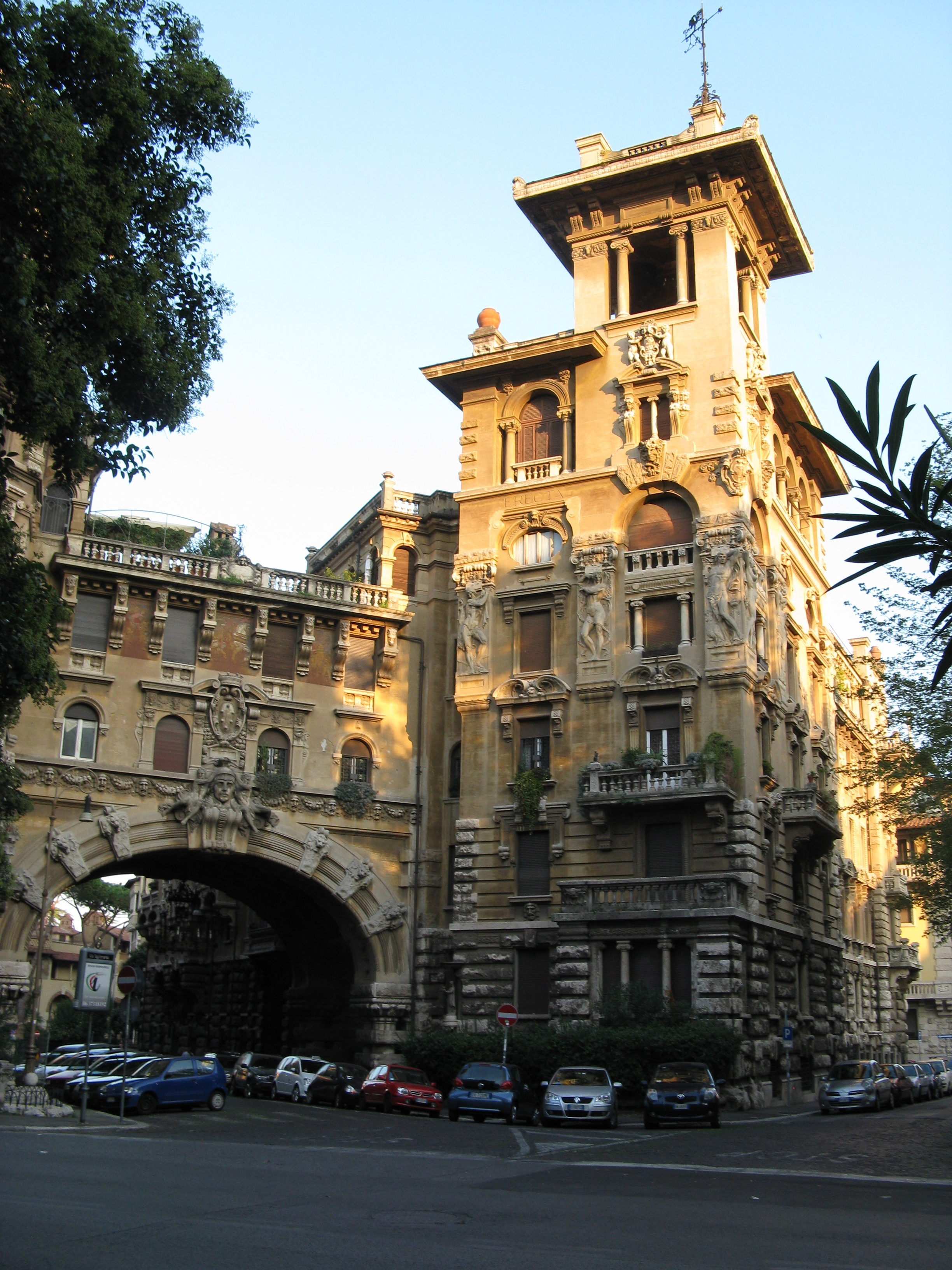 Exterior of Piazza Mincio.